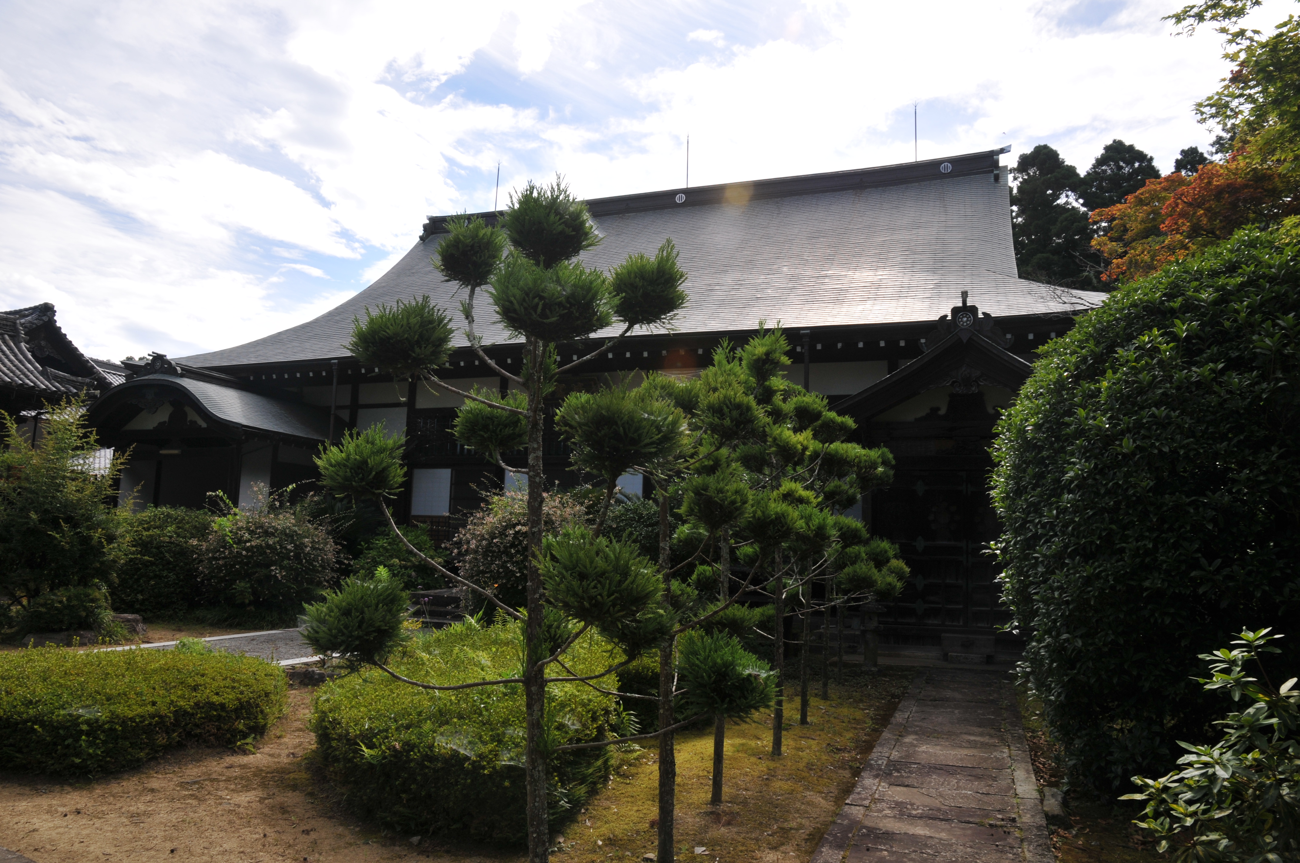 Main temple, Dairyū-ji